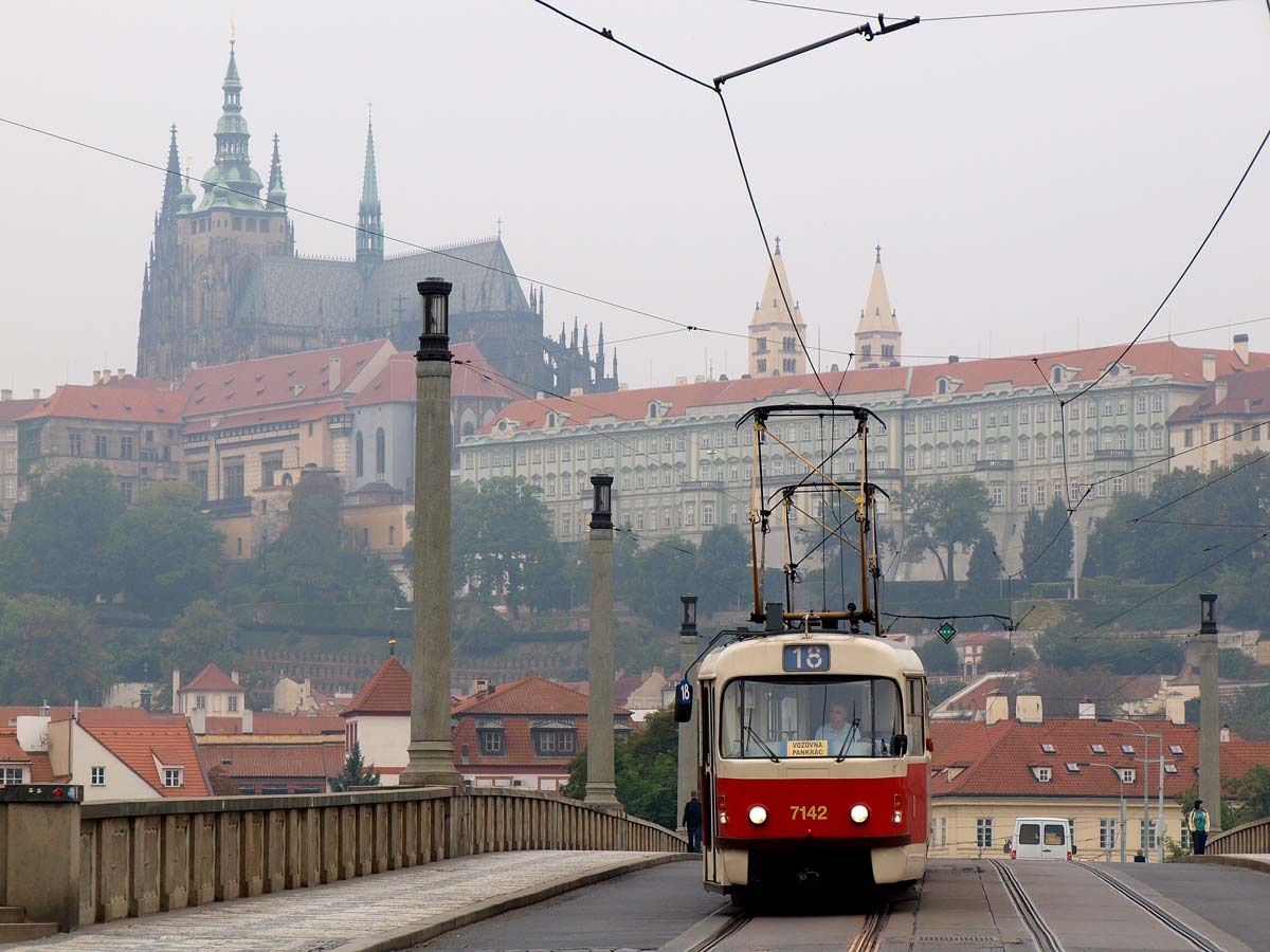 Tatra T3 and Prague castle. This picture was taken at Manes Bridge.